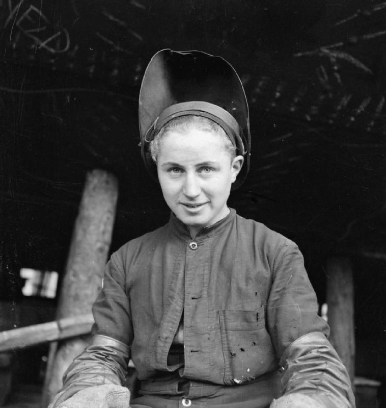 Glasgow Shipyard- Shipbuilding in Wartime, Glasgow, Lanarkshire, Scotland, UK, 1944 Informal portrait of a female welder in the shipyard.